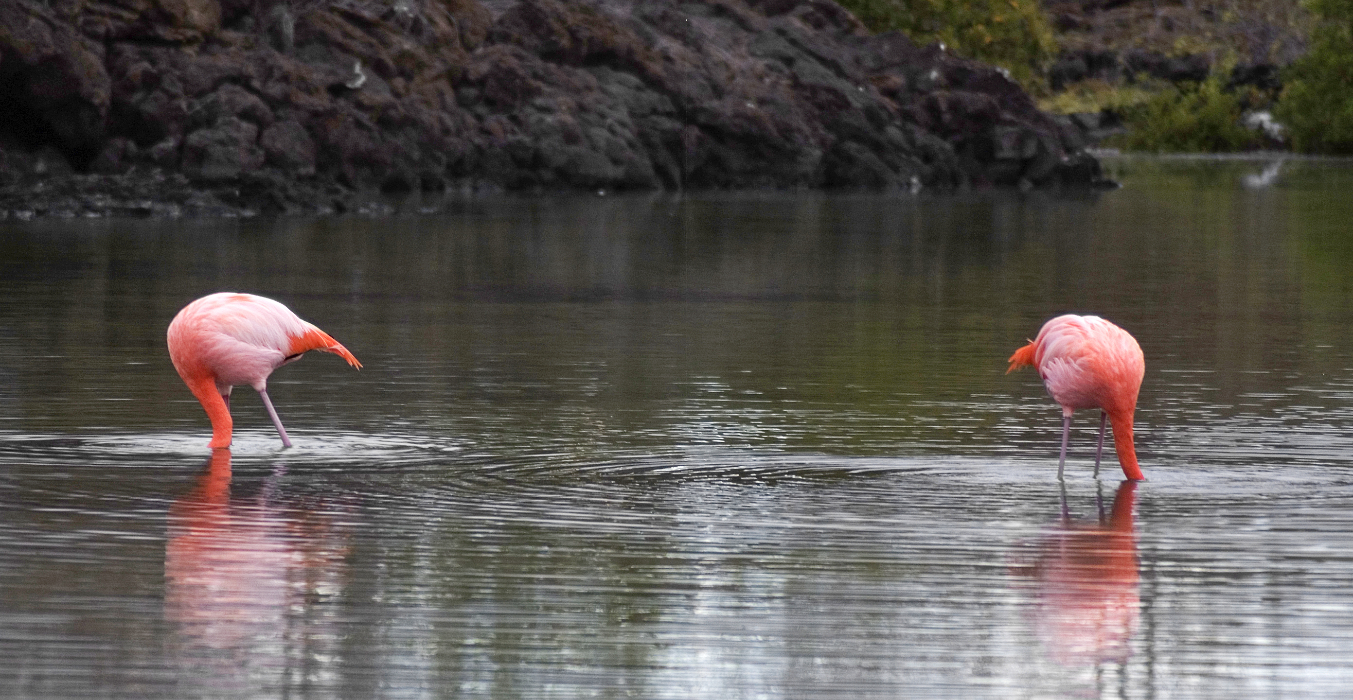 American Flamingos Phoenicopterus ruber, Galápagos Islands